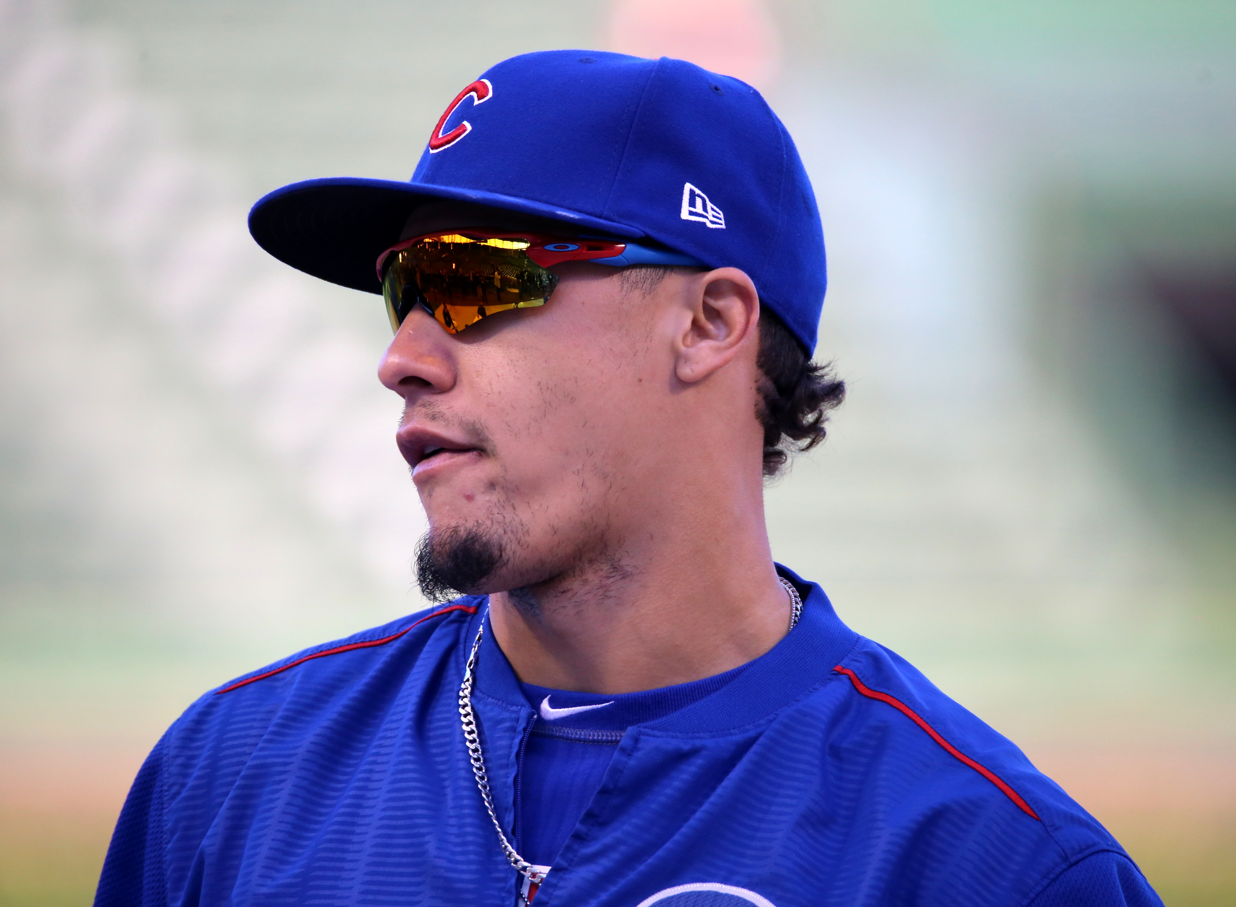 2016 National League Championship Series Game 6 at Wrigley Field